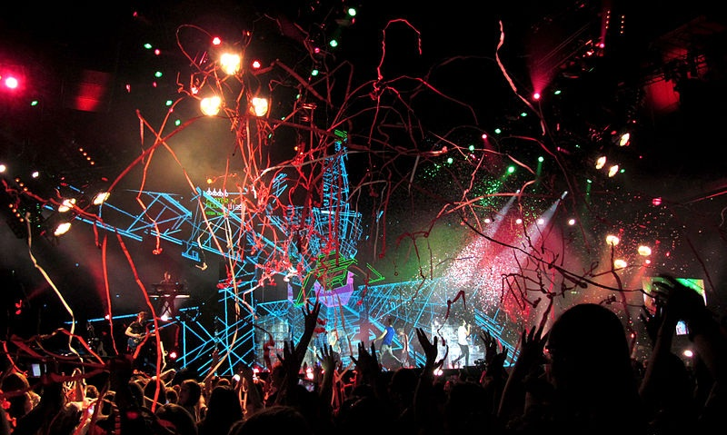 One Direction, Scottish Exhibition and Conference Centre (SECC), Glasgow, Wednesday 27 February 2013, Take Me Home Tour